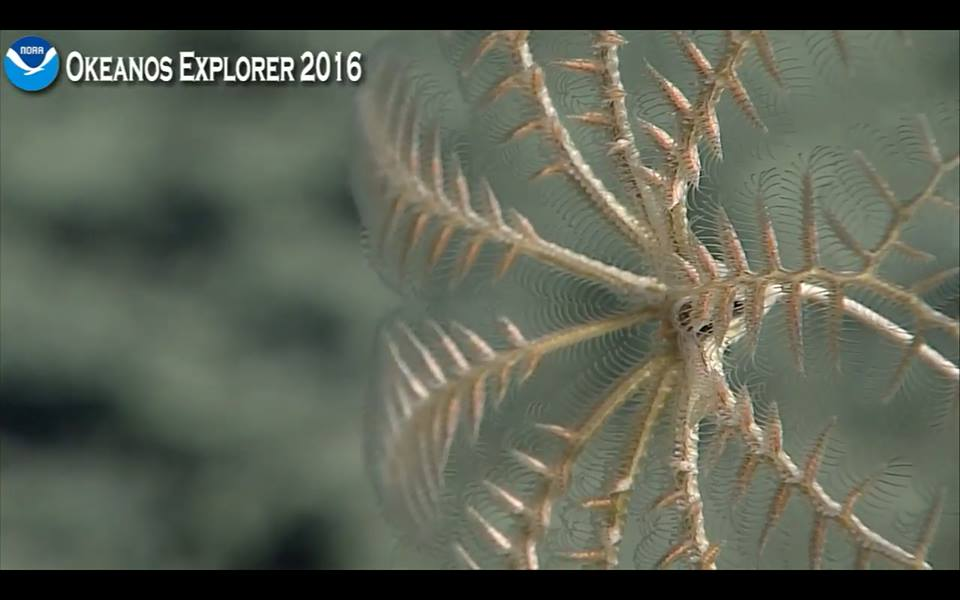 An unidentified stalked crinoid seen in the abyss by NOAA Okeanos Explorer mission.